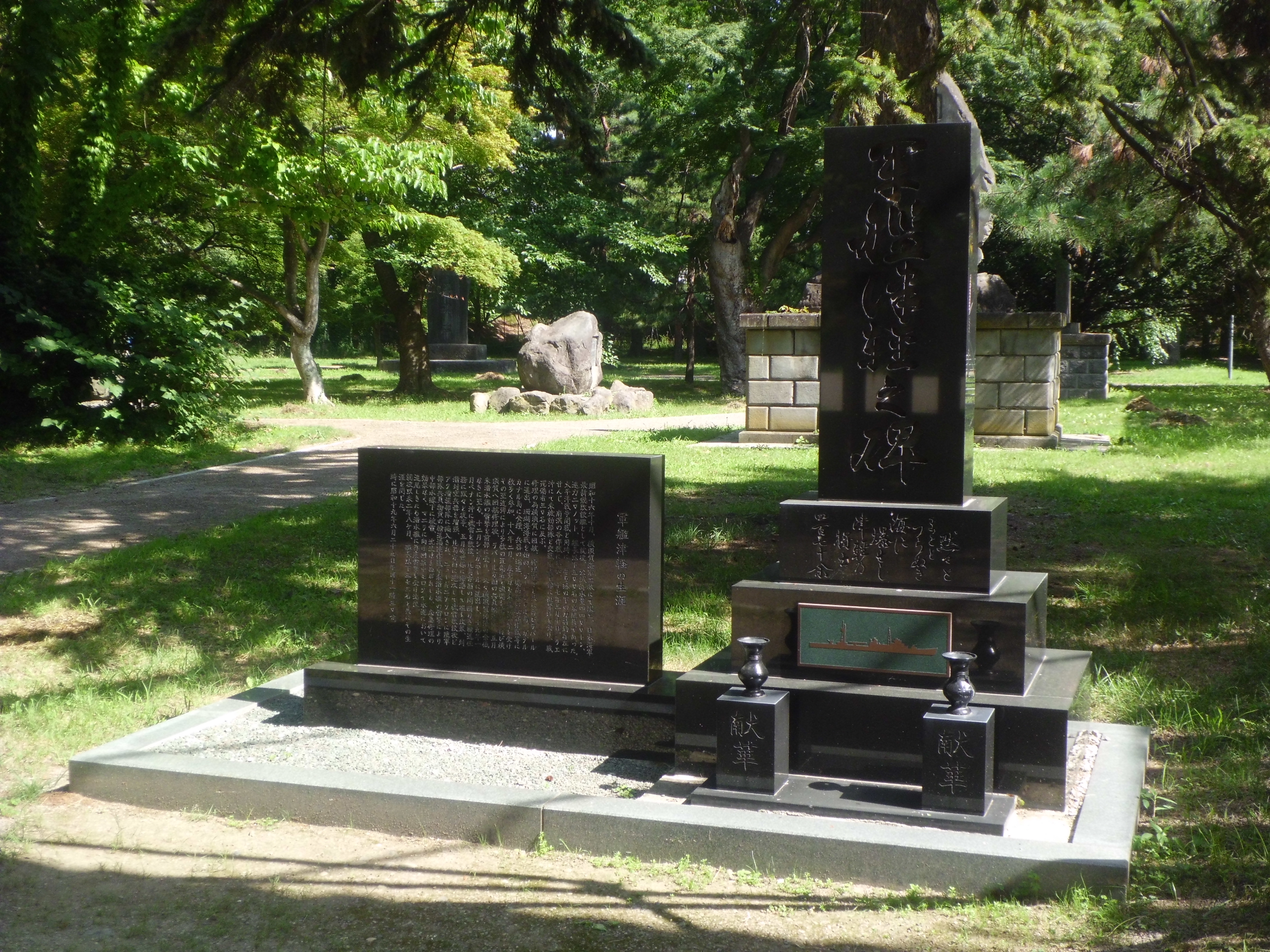 Monument to Minelayer Tsugaru